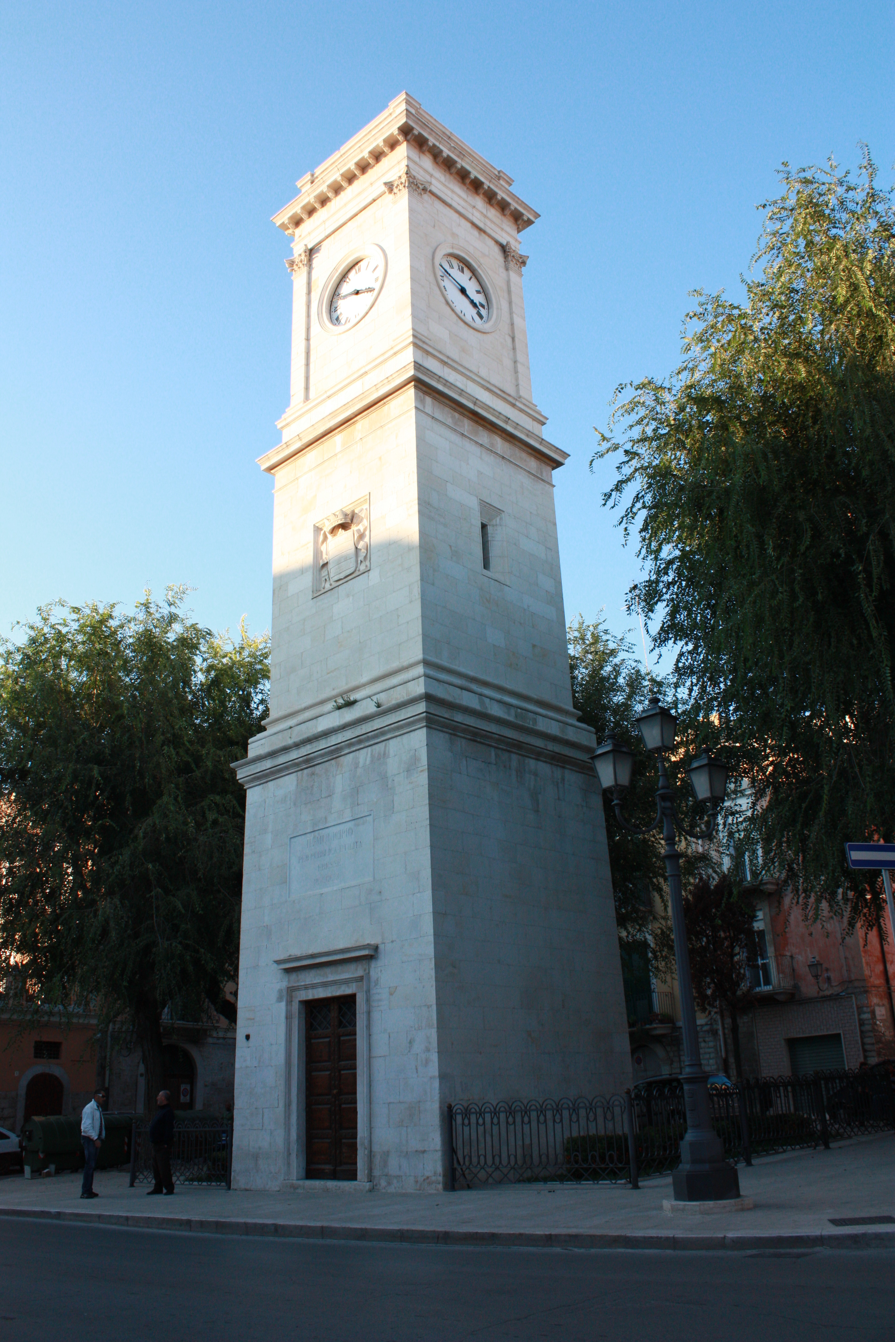 L'orologio di San Giacomo in corso Vittorio Emanuele